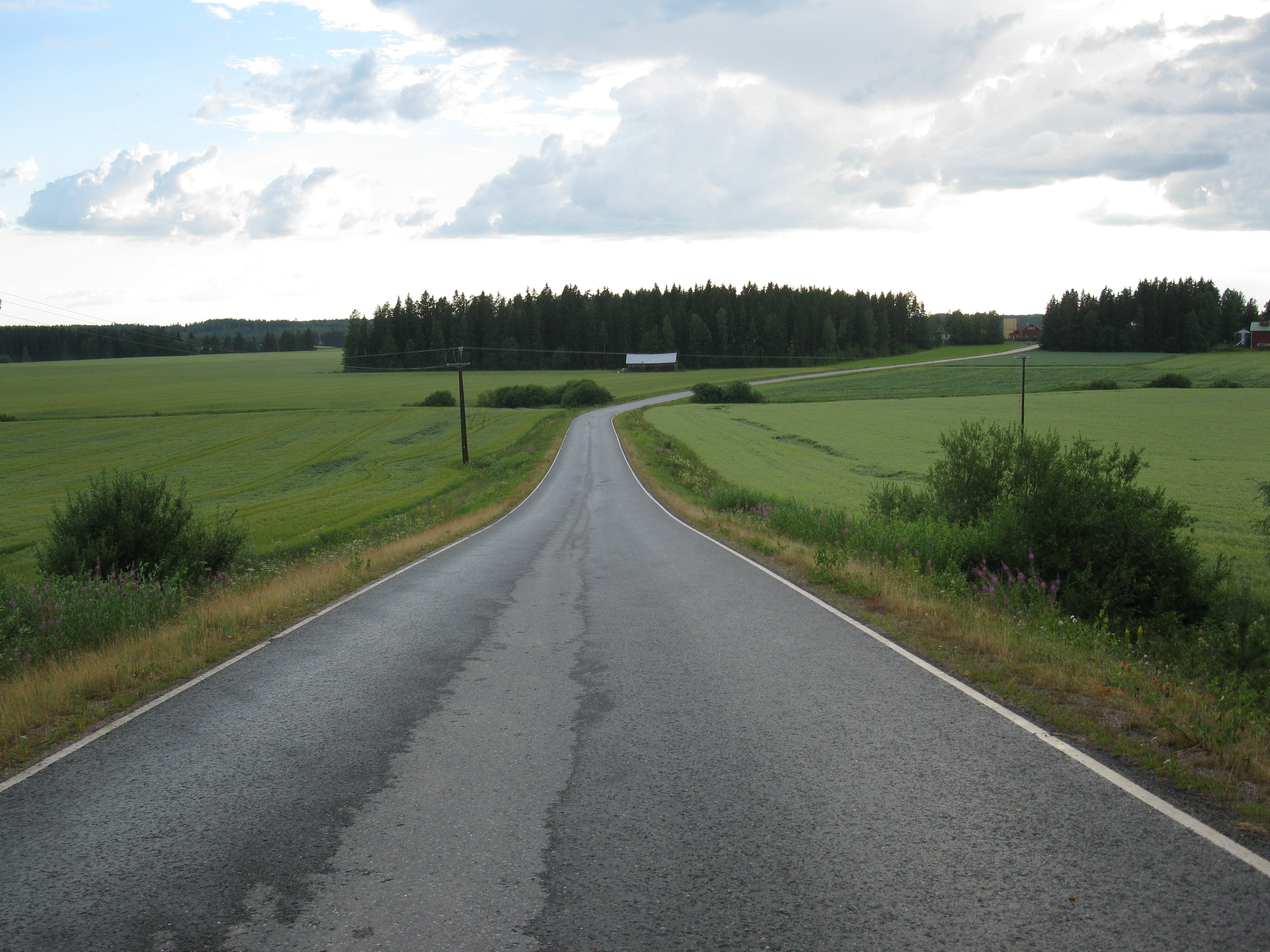 Muolaantie in Somero, Finland.